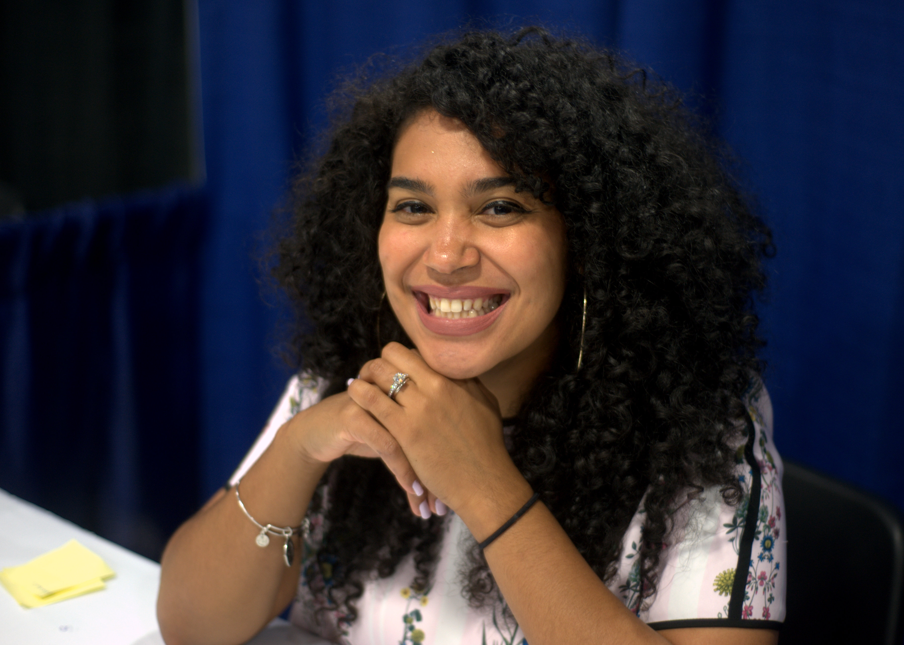 2018 National Book Festival